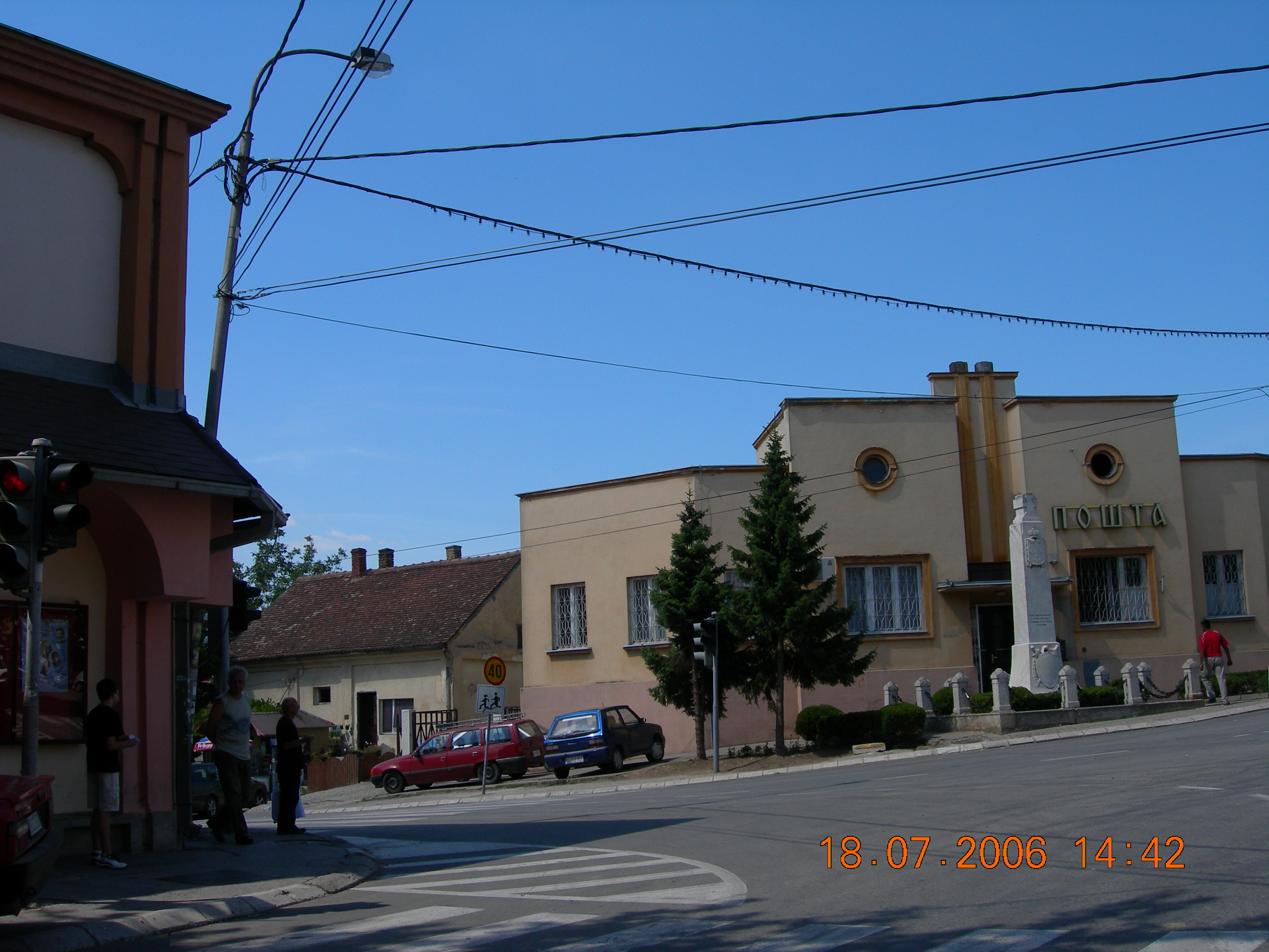 Post office in Topola